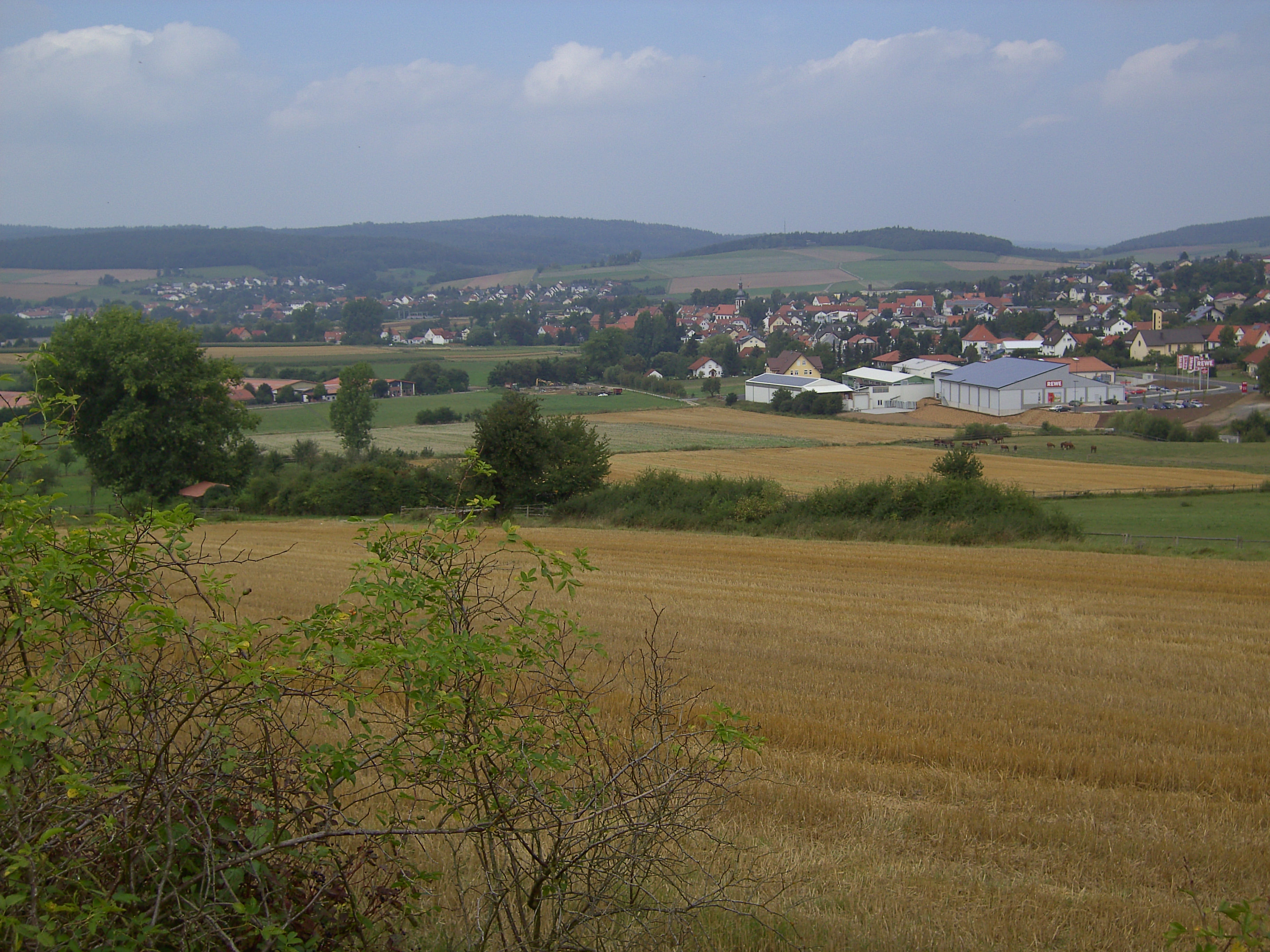 View Eiterfeld